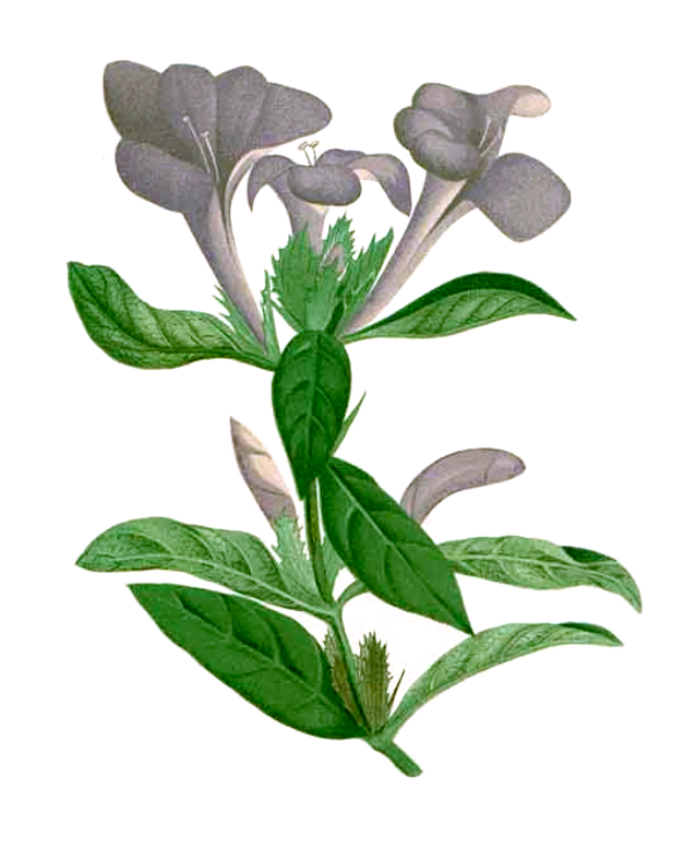 Plate from book Barleria cristata